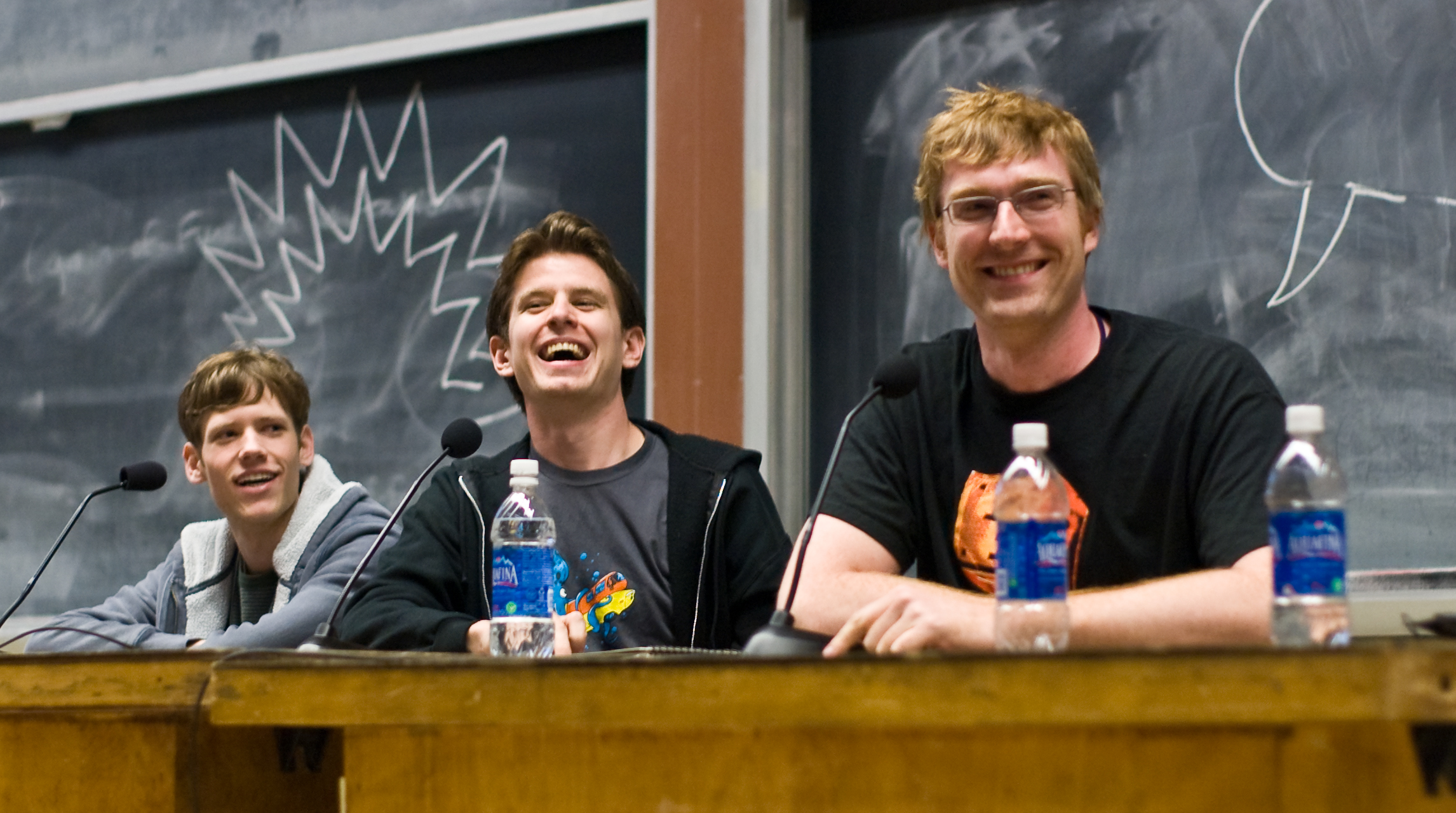 A cropped version of the photograph "Internet Superheroes" or "Cult Leaders", showing, from left to right: Christopher Poole aka moot of 4chan, Randall Munroe of xkcd and Ryan North of Dinosaur Comics.